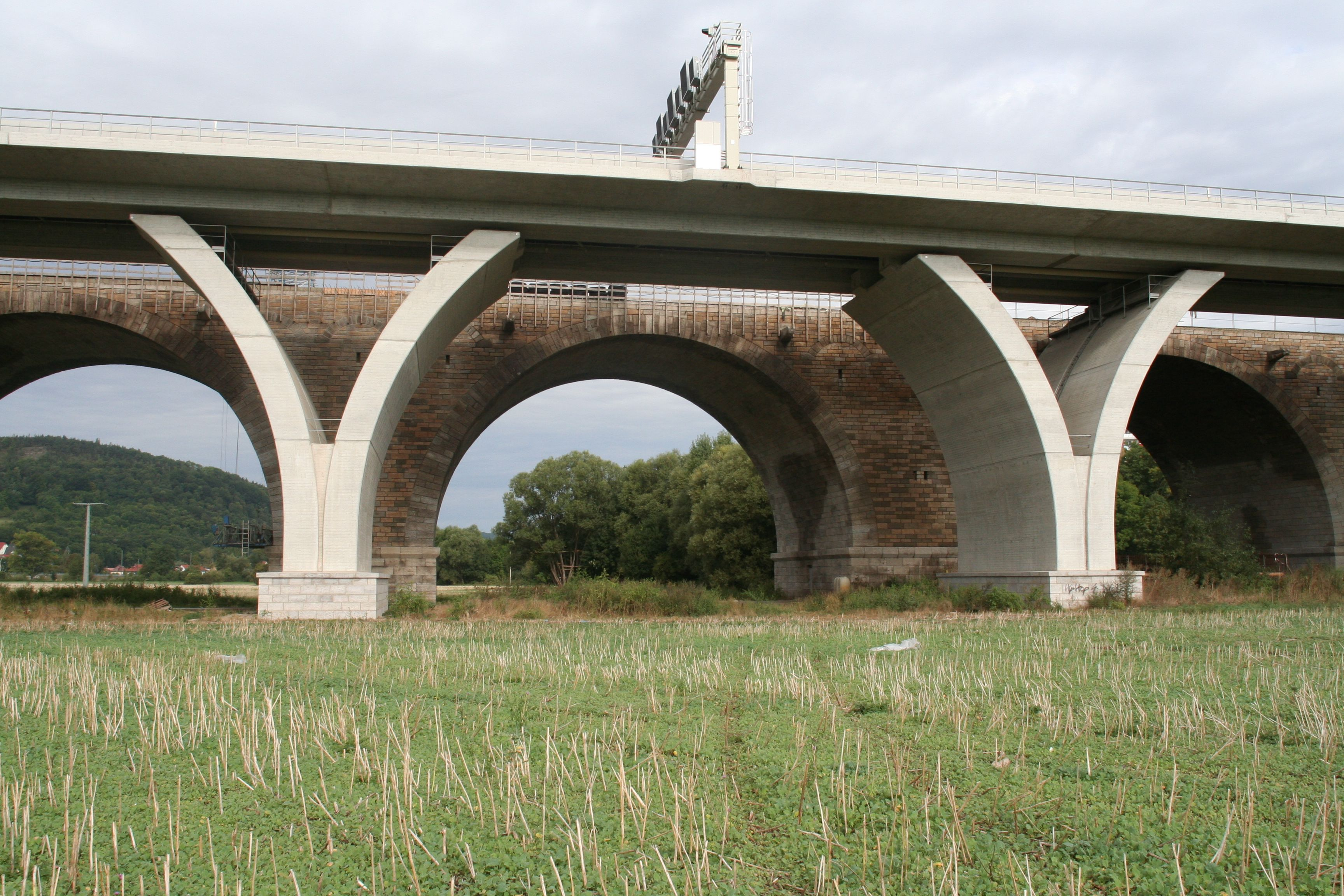 Saalebrücke der A4 bei Jena